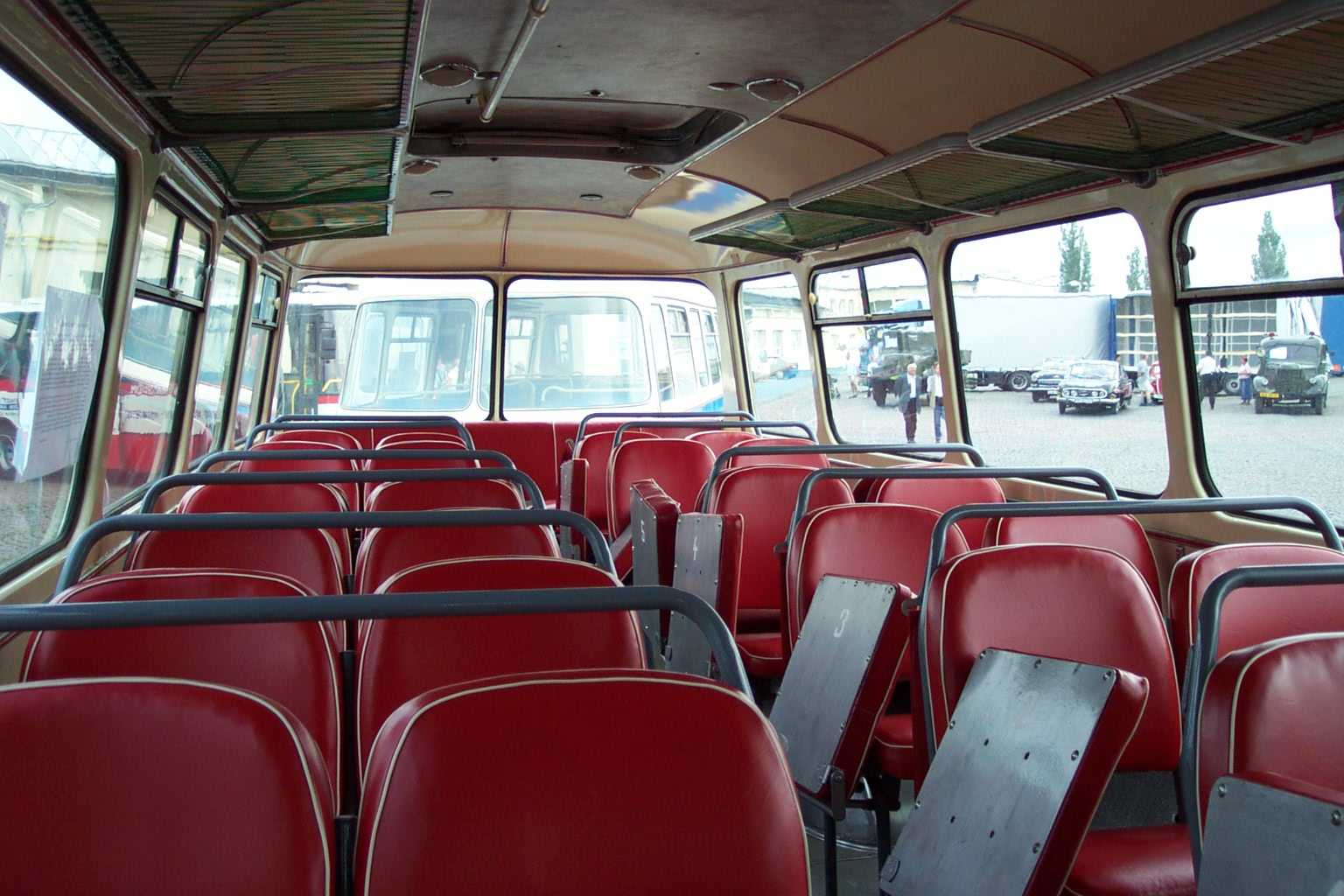 Beroun, bus type RTO with trailer car, interier of bus.